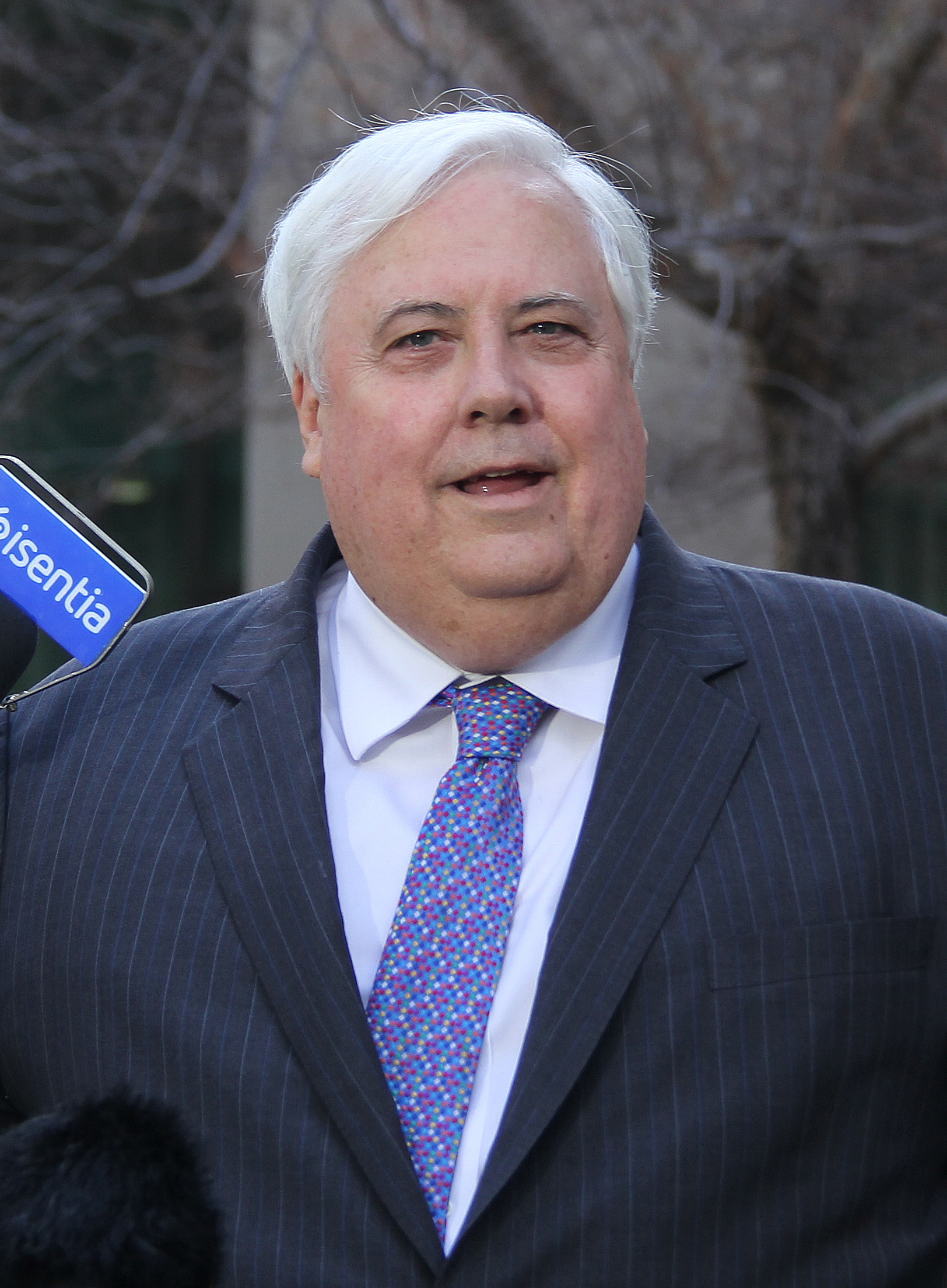 Clive Palmer picture at parliament house on 19AUG2015